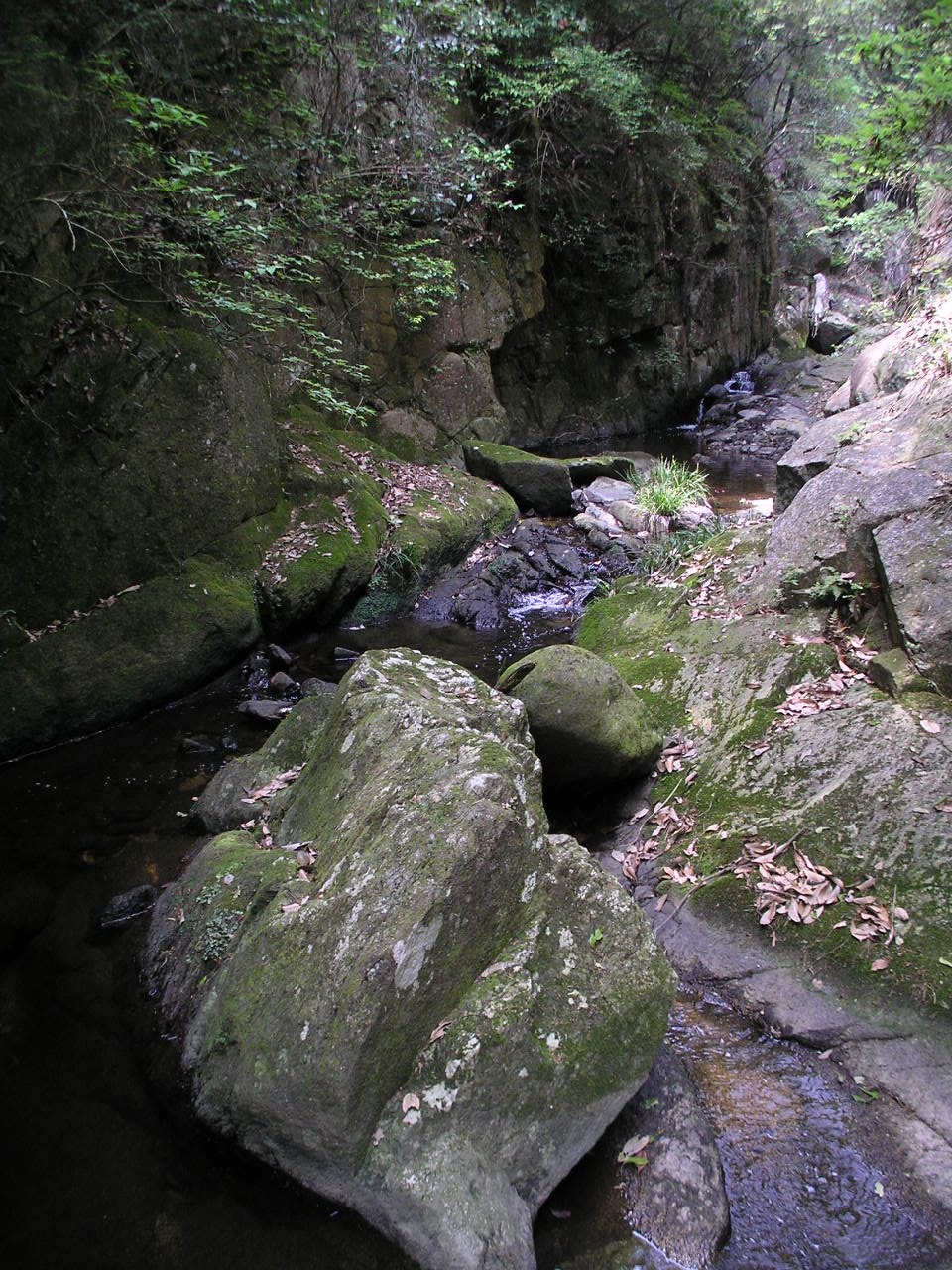 Iyagatani-kitaku-kobe 伊屋ヶ谷川